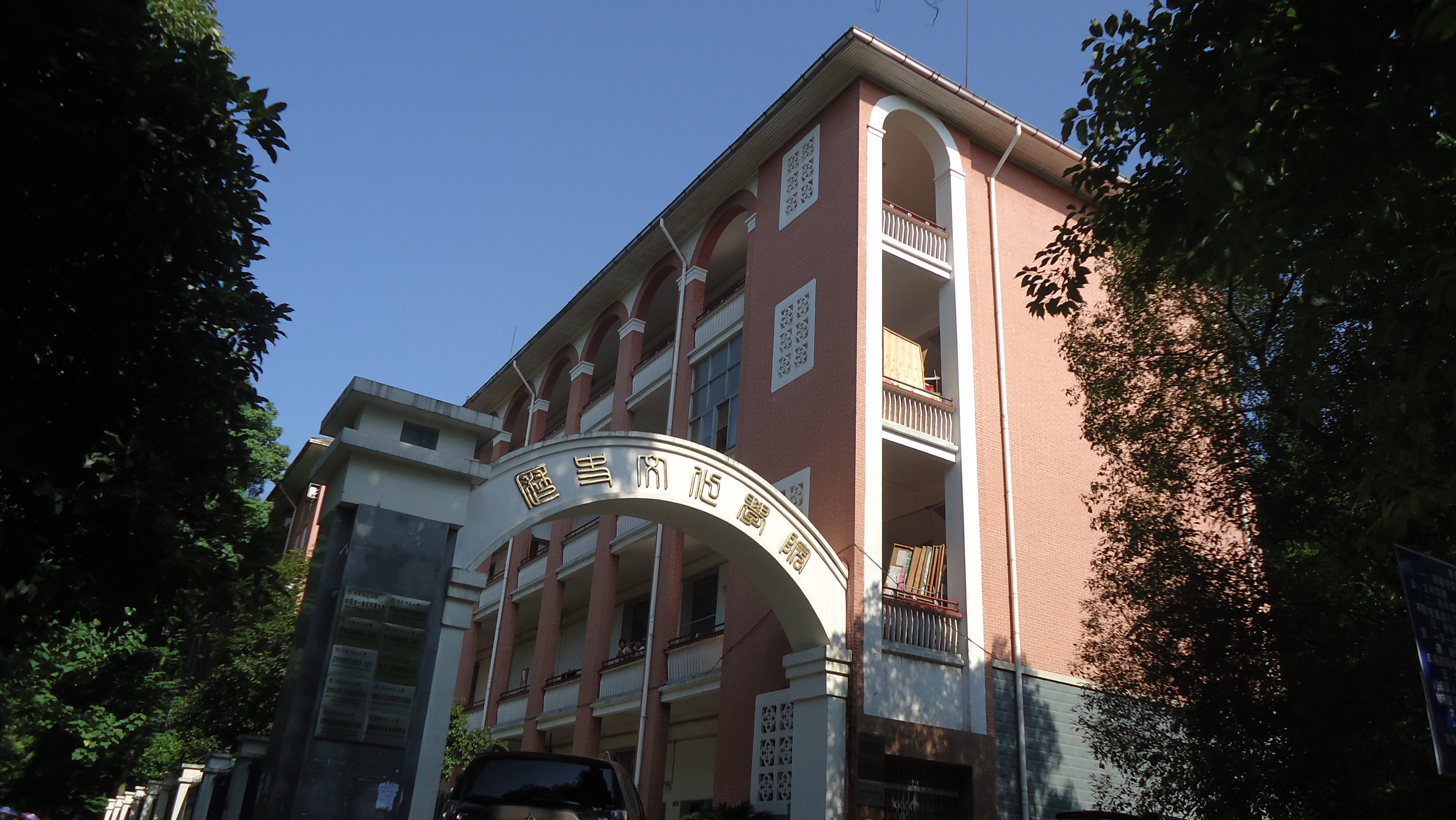 Hunan Normal University,founded in 1938, is a higher education institution located in Changsha, Hunan Province, People's Republic of China. The University is a national 211 Project university, one of the country's 100 key universities in the 21st century that enjoy priority in obtaining national funds.